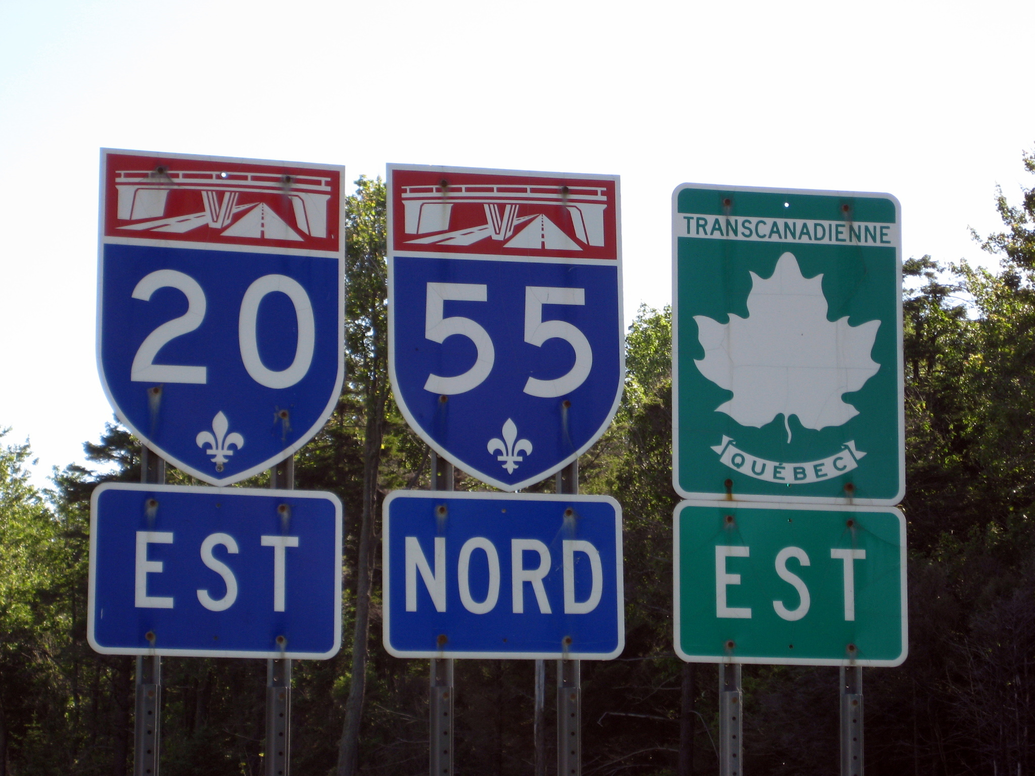 Multiplex portion of Quebec Autoroutes 20 eastbound (est) and 55 northbound (nord). This portion of Autoroute 20 is part of the Trans-Canada Highway.